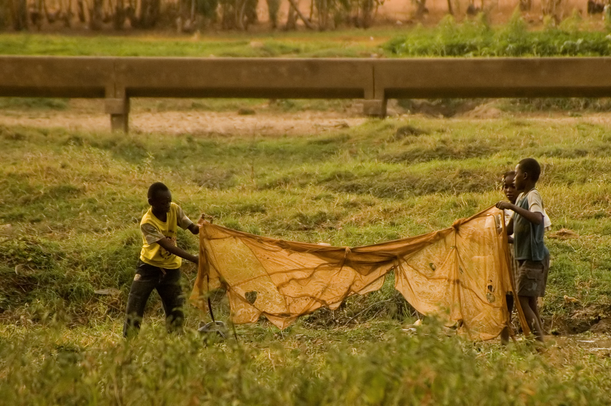 Fishers and their fishing net in Ouagadougou